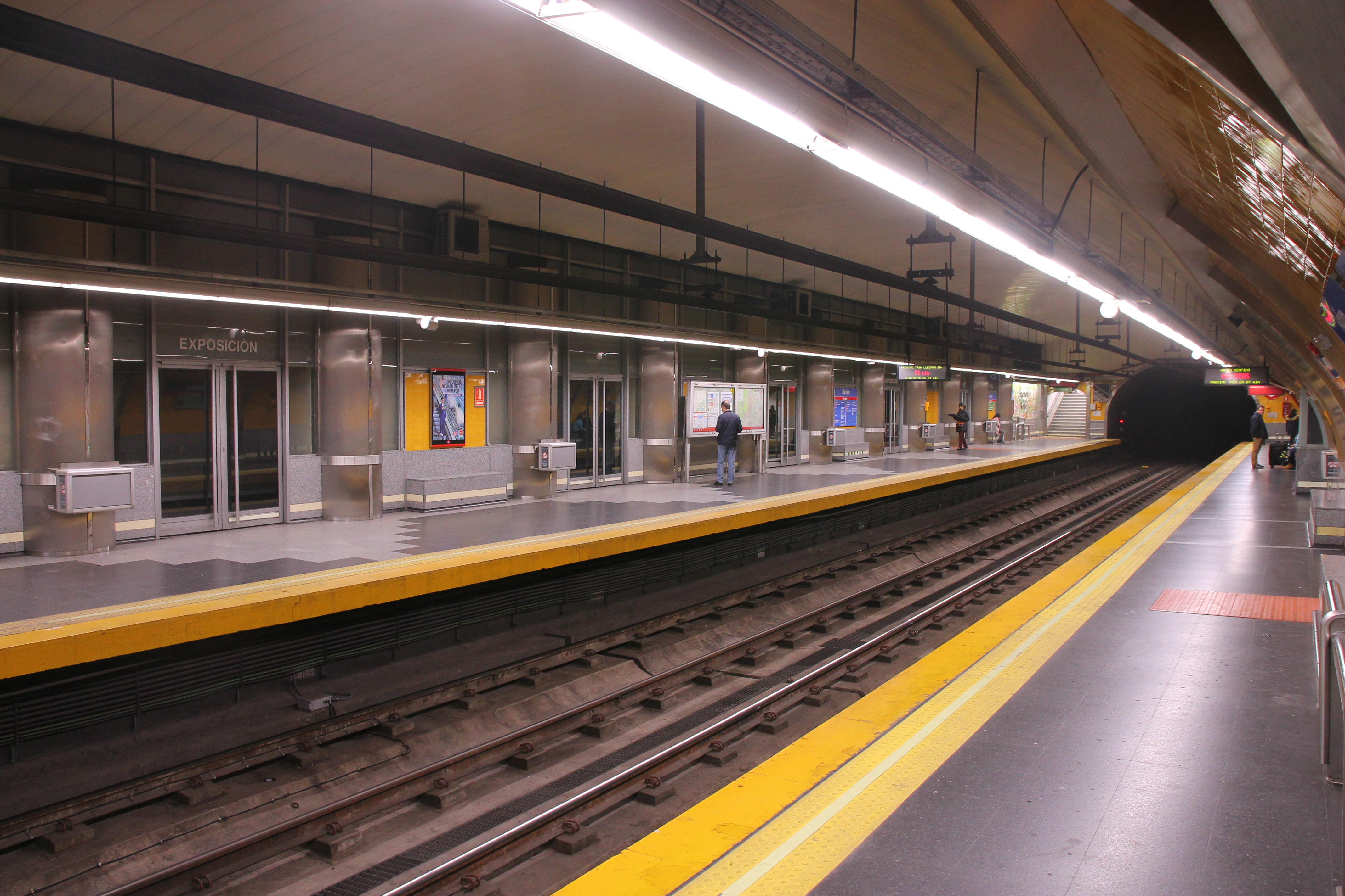 Estación de Retiro